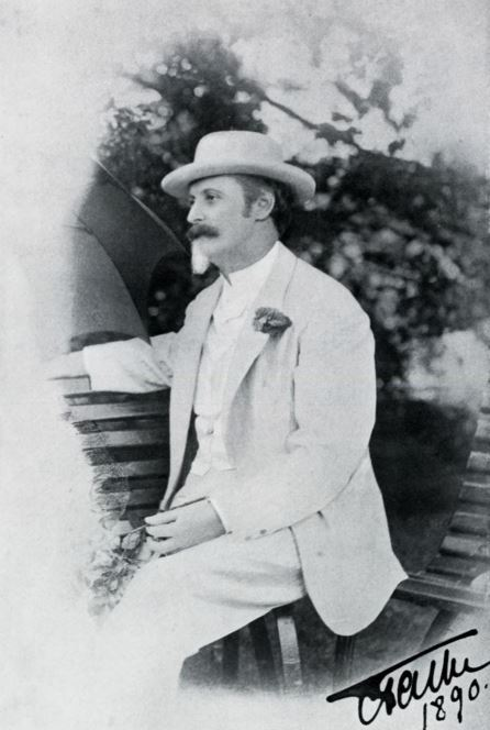 Danish diplomat Christian Falbe (1828–96)